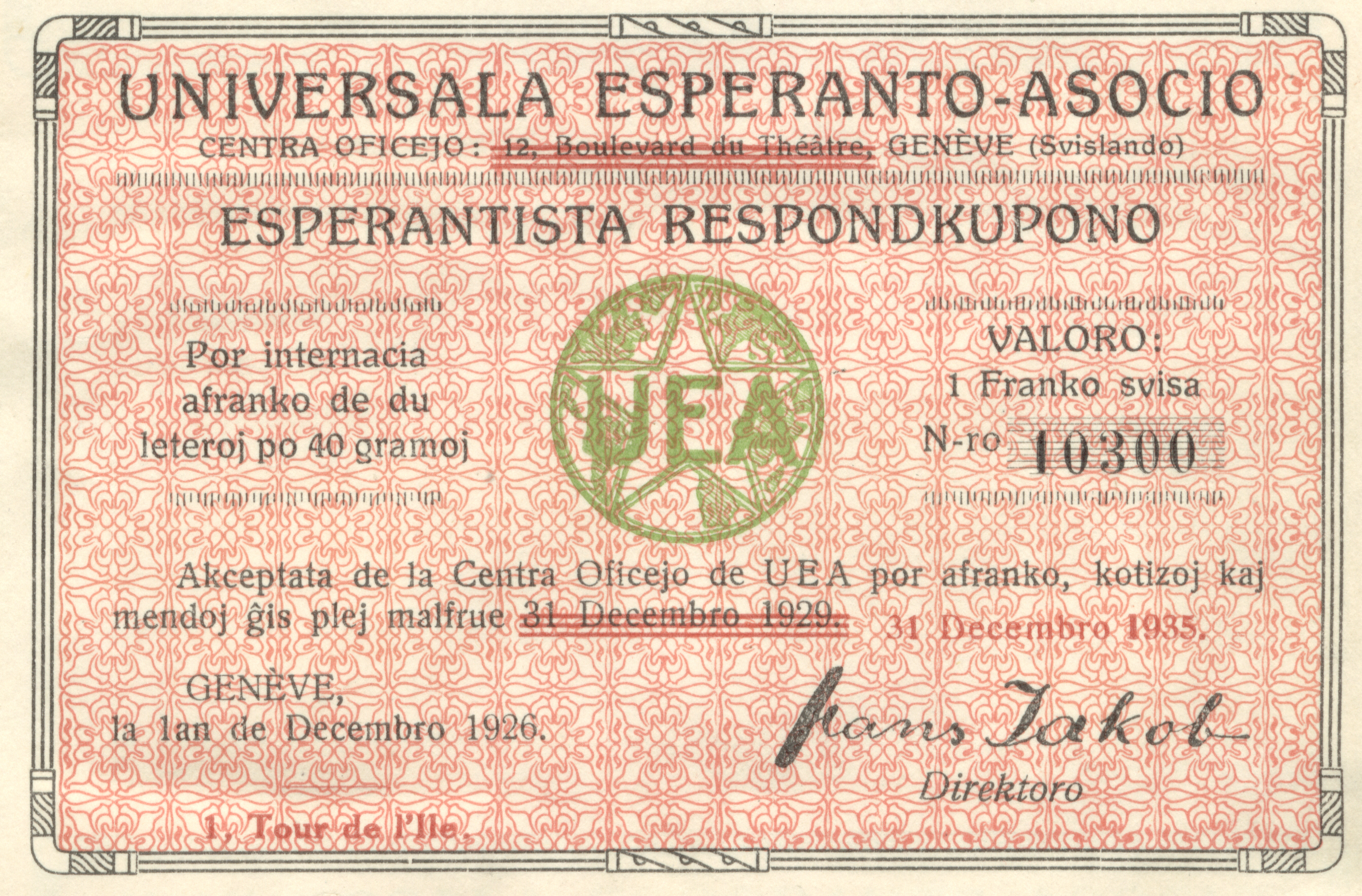 The "Esperantia Respondkupono" of UEA, December 1st 1926.